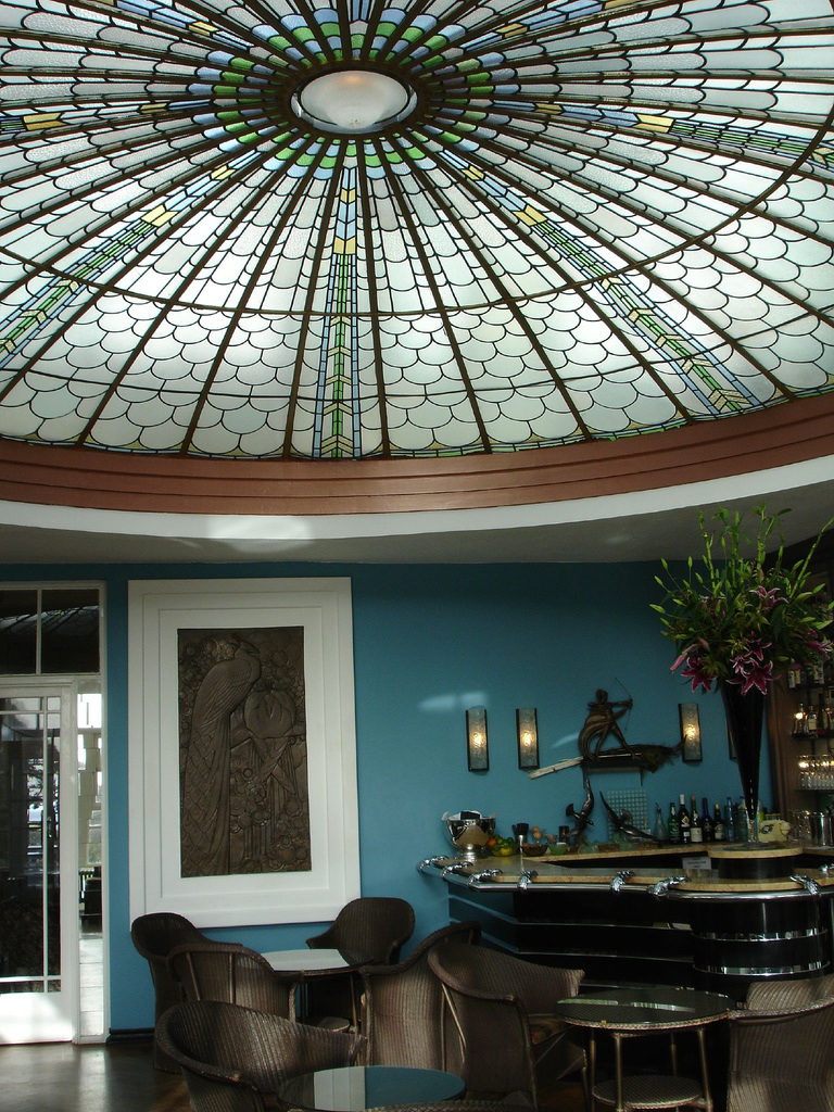 The Peacock Bar in Burgh Island Hotel on Burgh Island, Devon, England